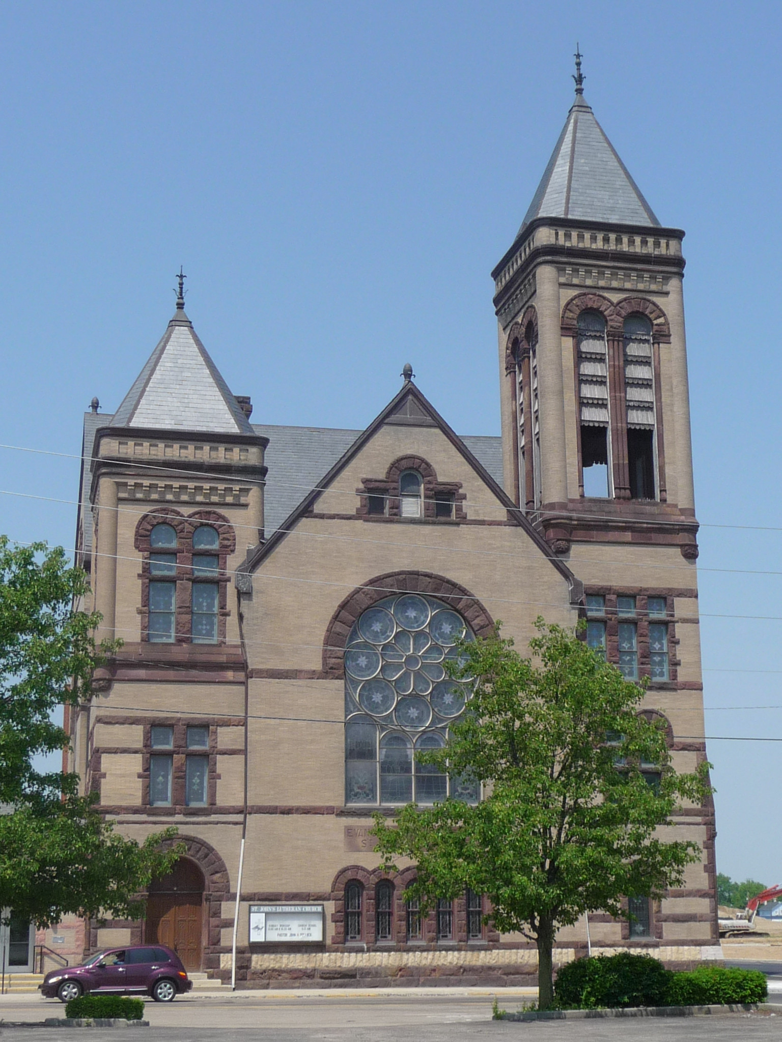 The East facade of St. John's Evangelical Lutheran Church in Springfield, Ohio